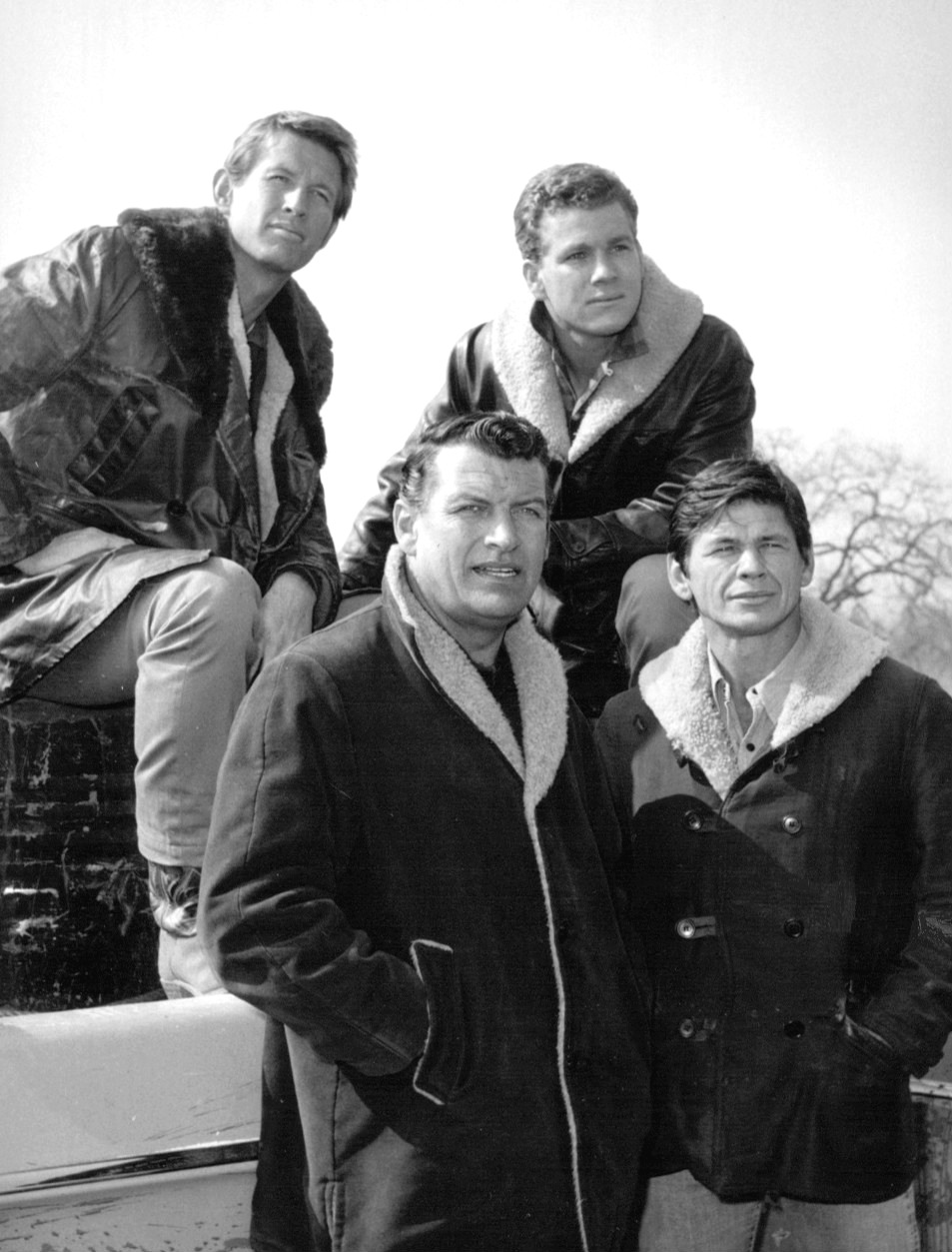 Male cast from the television series Empire. Back from left:Warren Vanders as Chuck Evans, Ryan O'Neal as Tal Garret. Front from left: Richard Egan as Jim Redigo and Charles Bronson as Paul Moreno. The series aired for only one season--the two main female cast members were written out of the series about mid-way through its run.